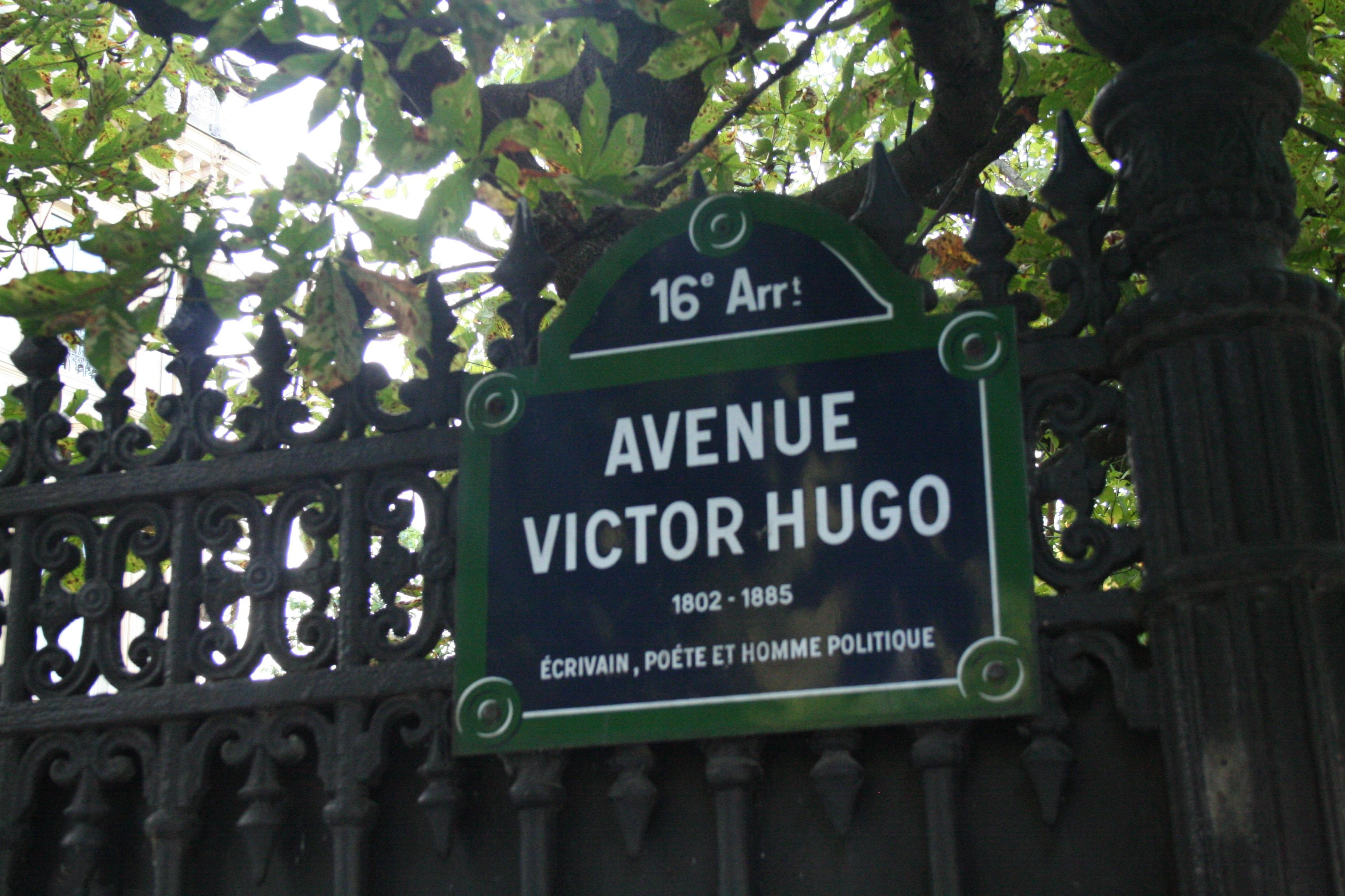 Photo by Pejman Akbarzadeh